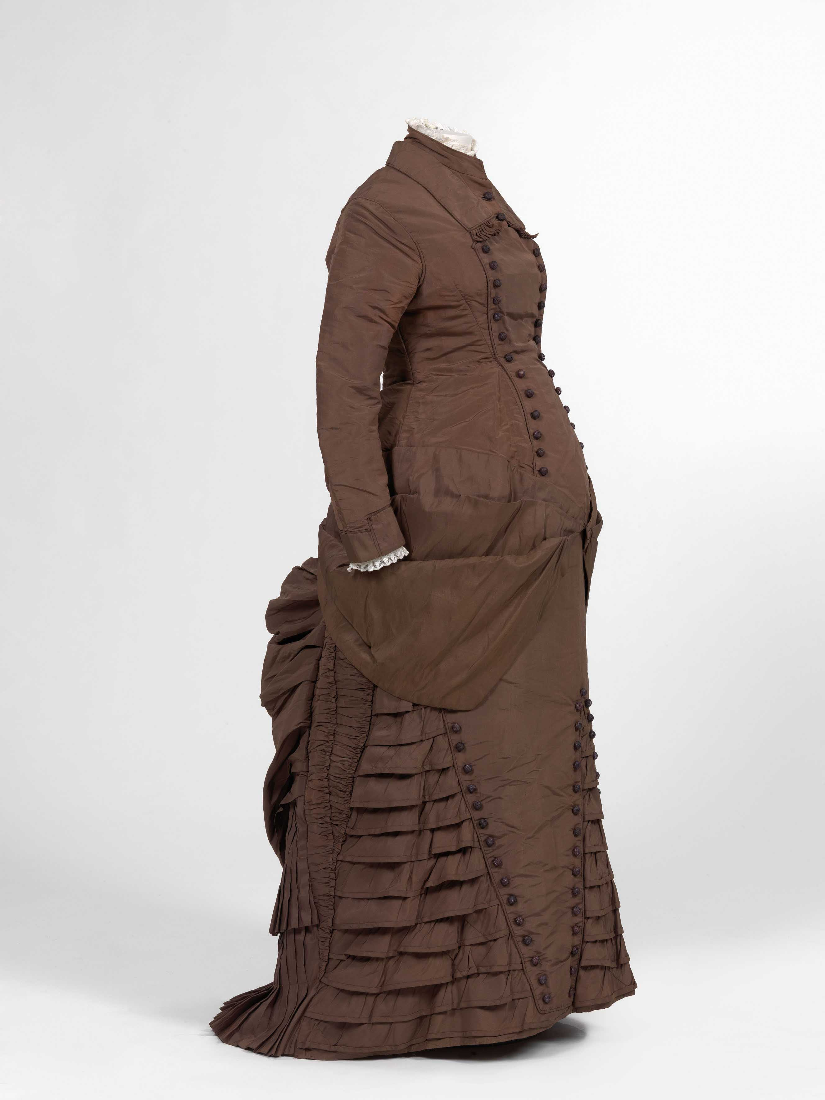 Anonymous, Maternity dress, ca. 1880. The dress was remade from a somewhat older model, which had been worn as a wedding dress. The bodice closes tightly above the waist. The skirt has a waistband which moves upwards at the front. MoMu Collection T12/1286AB/J191